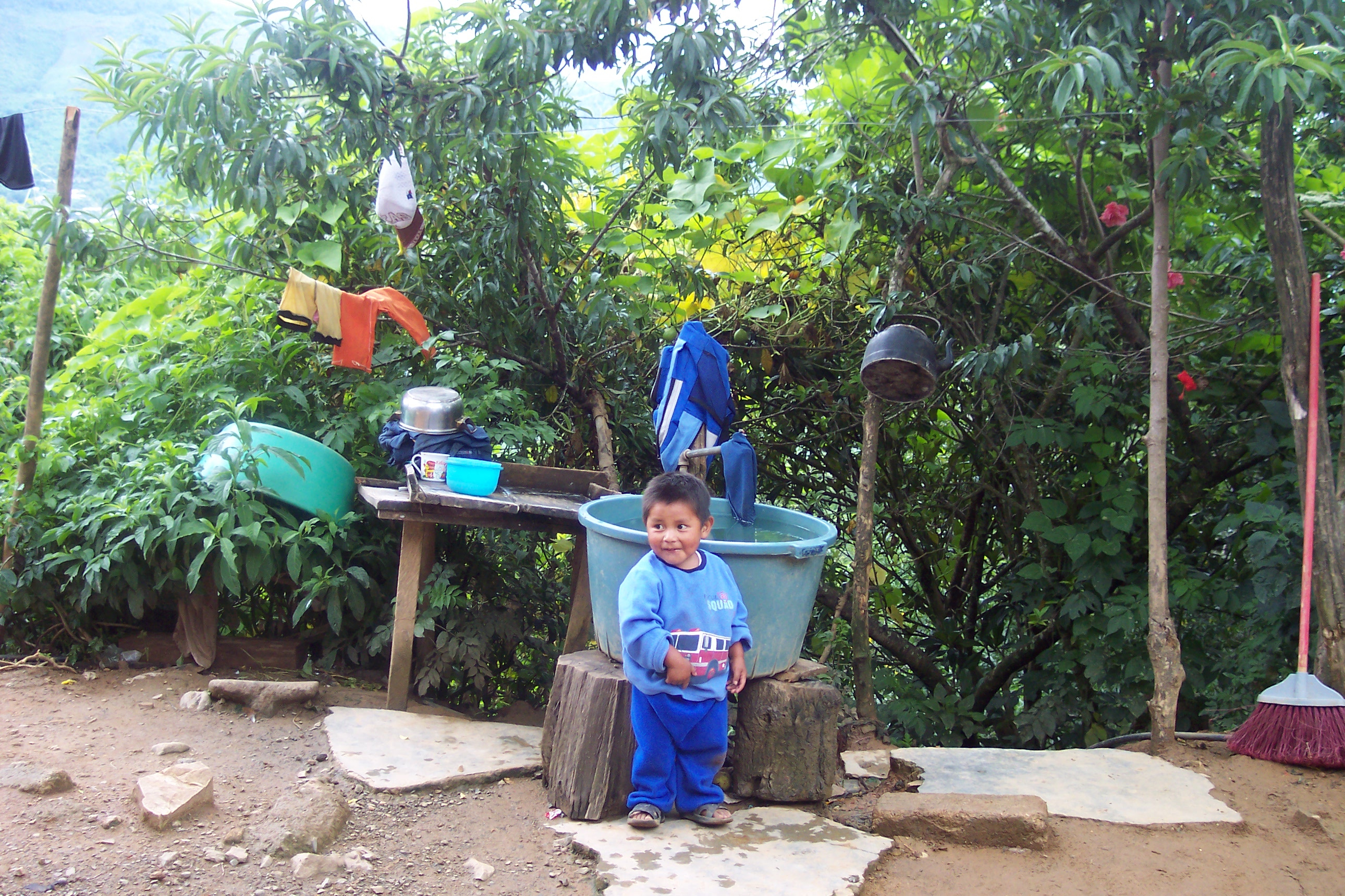 PIH's project in Mexico gave cameras to illiterate women, allowing them to document their lives.